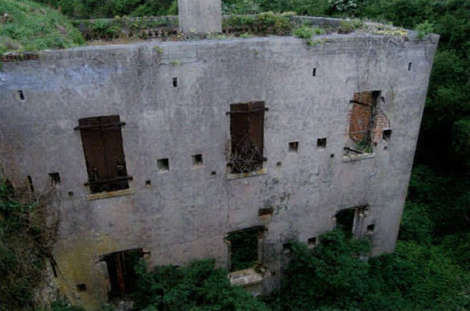 Fort Redoubt Caponier 2008